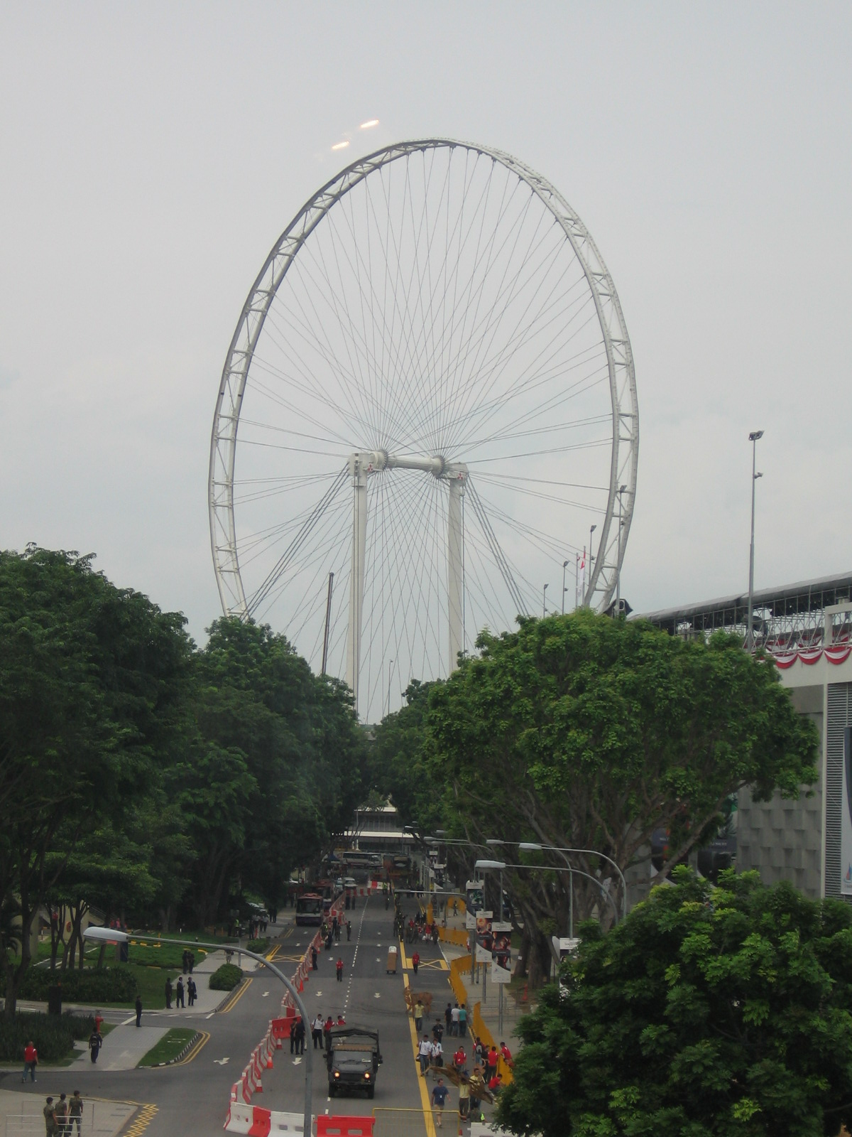 Singapore Flyer